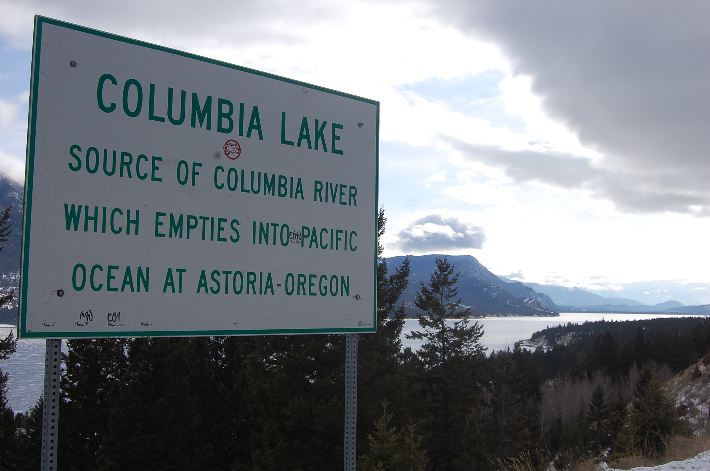 Columbia Lake sign